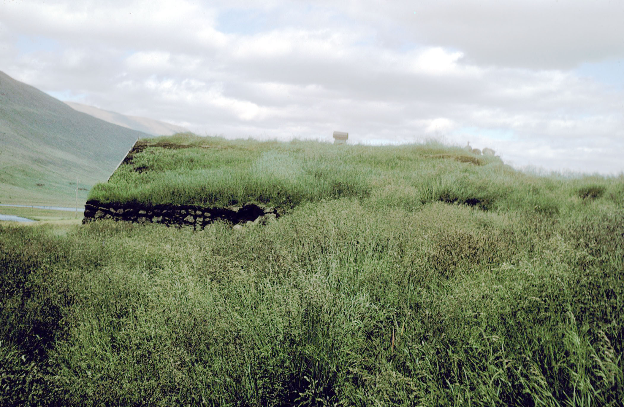 A traditional grass-covered house in Iceland in Jul or Aug 1972. Picture taken and uploaded by Roger McLassus.